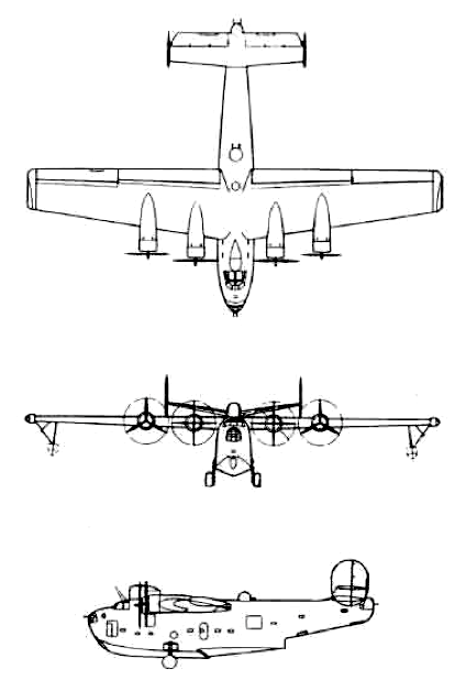 From Naval Aviation News, Nov 1989.